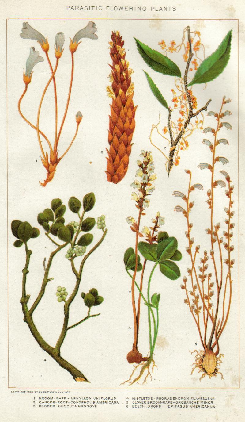 Painting Aphyllon uniflorum Conopholis americana Cuscuta gronovii Phoradendron flavescens Orobanche minor Epifagus americanus